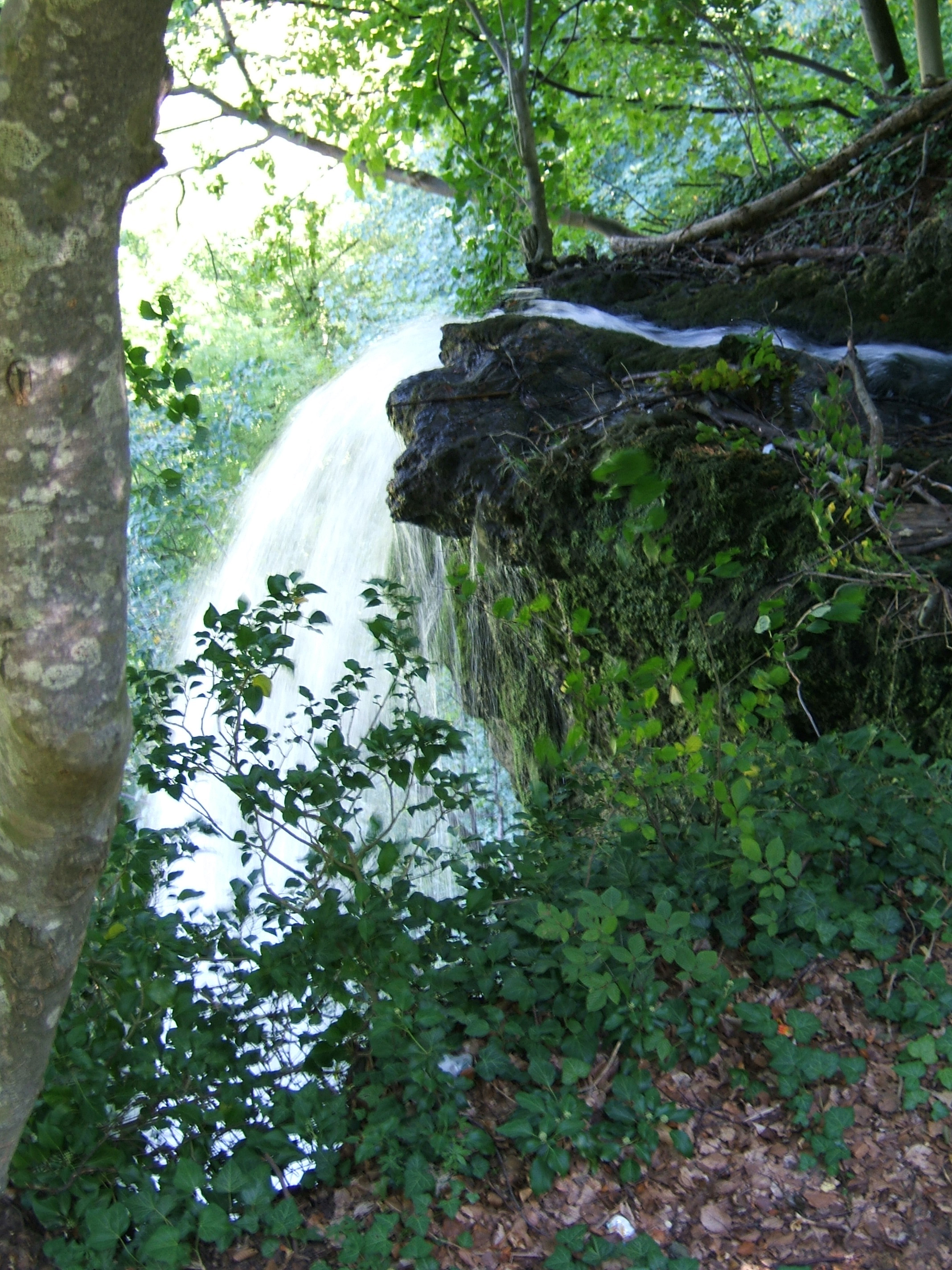 Waterfall near Bad Urach, Germany